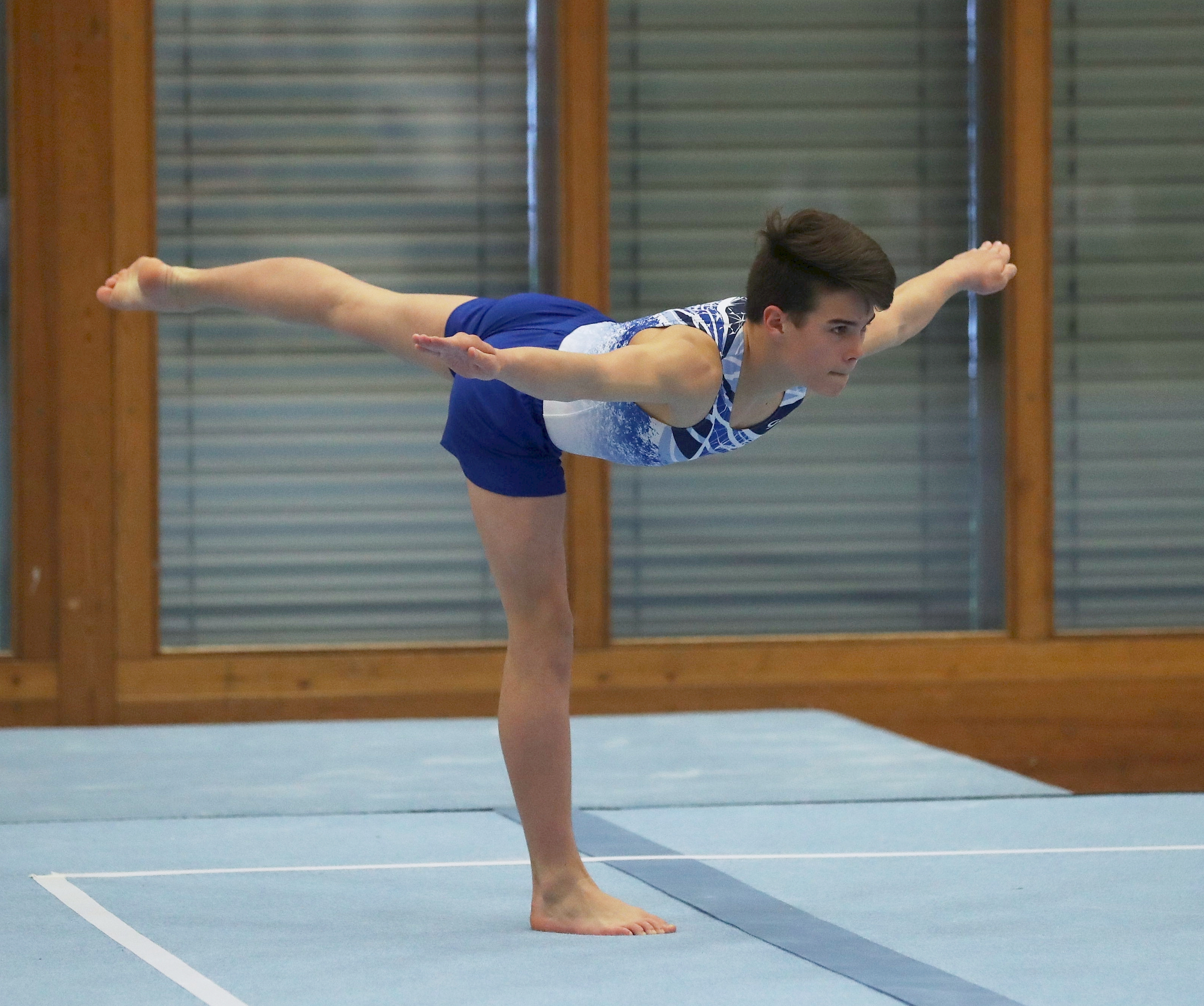 Floor finals of P6 Junior at the 24th Rheintalcup 2019 in Widnau on 13 April 2019. Depicted: František Marghold.